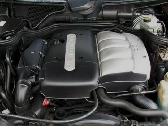 OM611 DE 22 LA engine